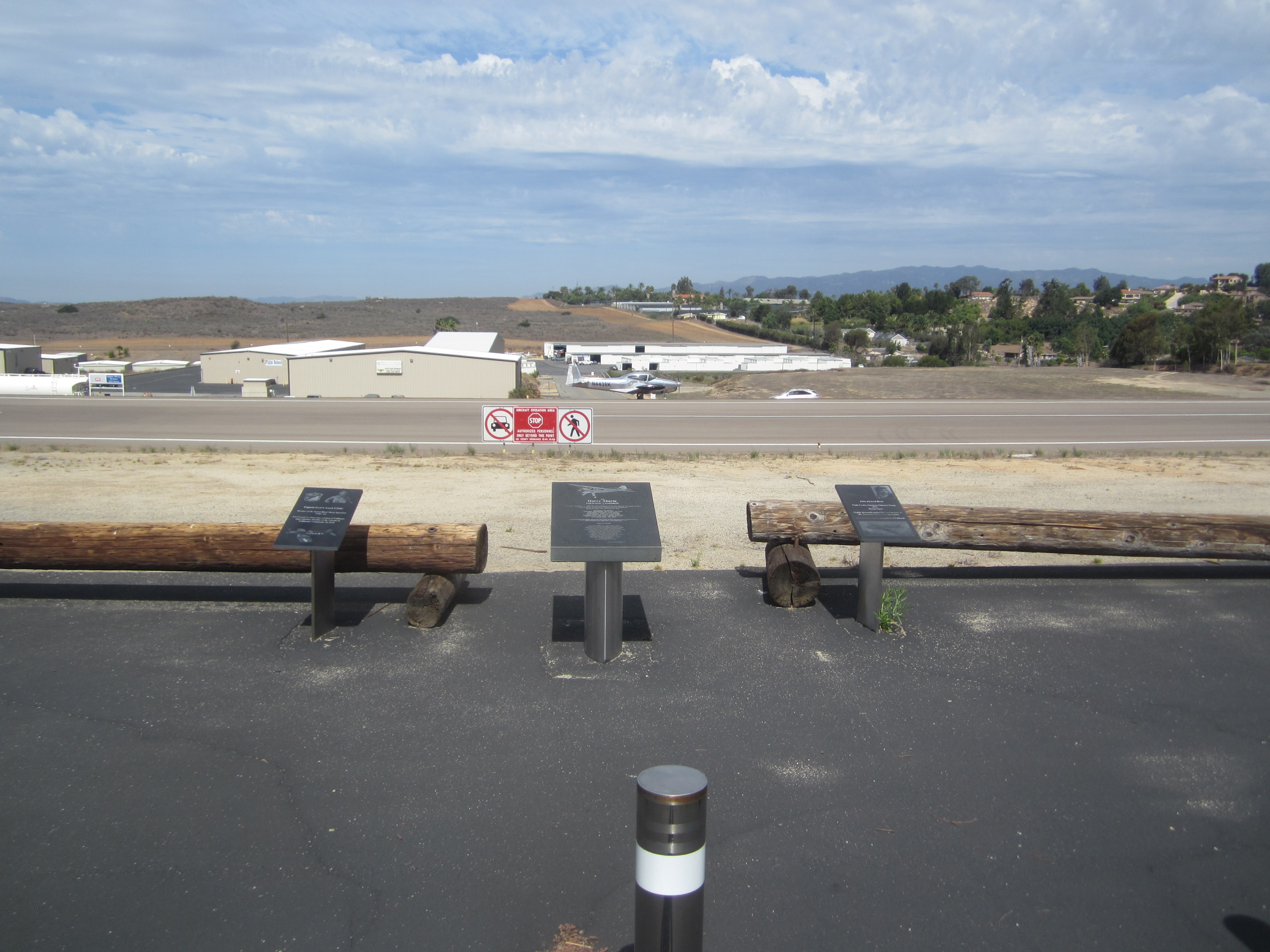 View across tarmac at Fallbrook Community Airpark in Fallbrook, California; taken from observation area.